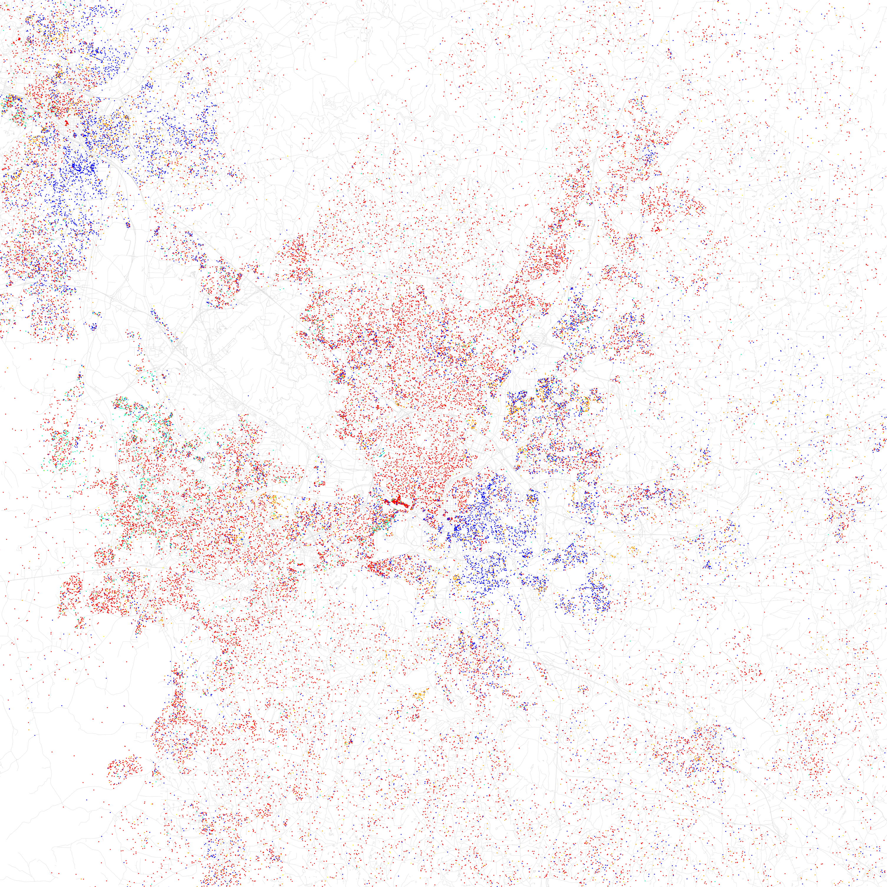 Maps of racial and ethnic divisions in US cities, inspired by Bill Rankin's map of Chicago, updated for Census 2010. Red is White, Blue is Black, Green is Asian, Orange is Hispanic, Yellow is Other, and each dot is 25 residents. Data from Census 2010. Base map © OpenStreetMap, CC-BY-SA